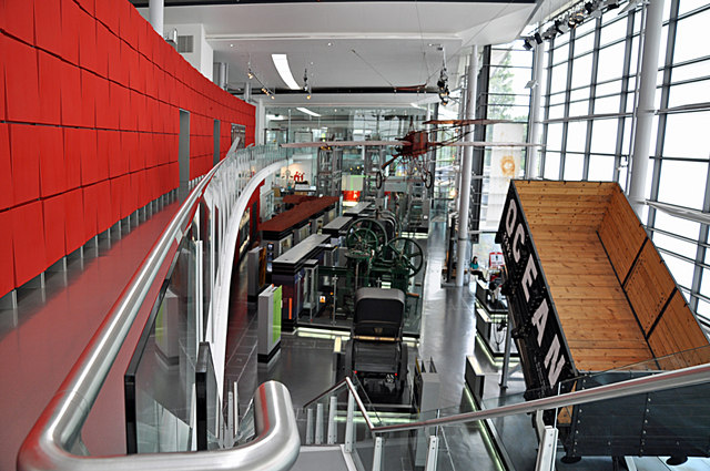 Exhibition Hall, National Waterfront Museum - Swansea An impressive building with this gallery, one of several, concentrating on engineering and featuring early Welsh inventions. Elsewhere commentators have expressed disappointment with the museum and in particular the current trait of concentrating on electronic information displays at the expense of items on display. I have to say I agree as apart from three other adults this hall with few visual aids was almost empty. In an upper gallery children dashed from control unit to control unit and screen to screen without appearing to absorb anything they were looking at. Though alternative efforts to draw the public into them museums are to be applauded it would seem that they have been turned into amusement arcades.